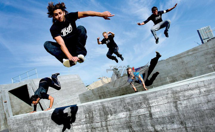 Team jiyo er blandt pioneerne indenfor parkour og freerunning i danmark